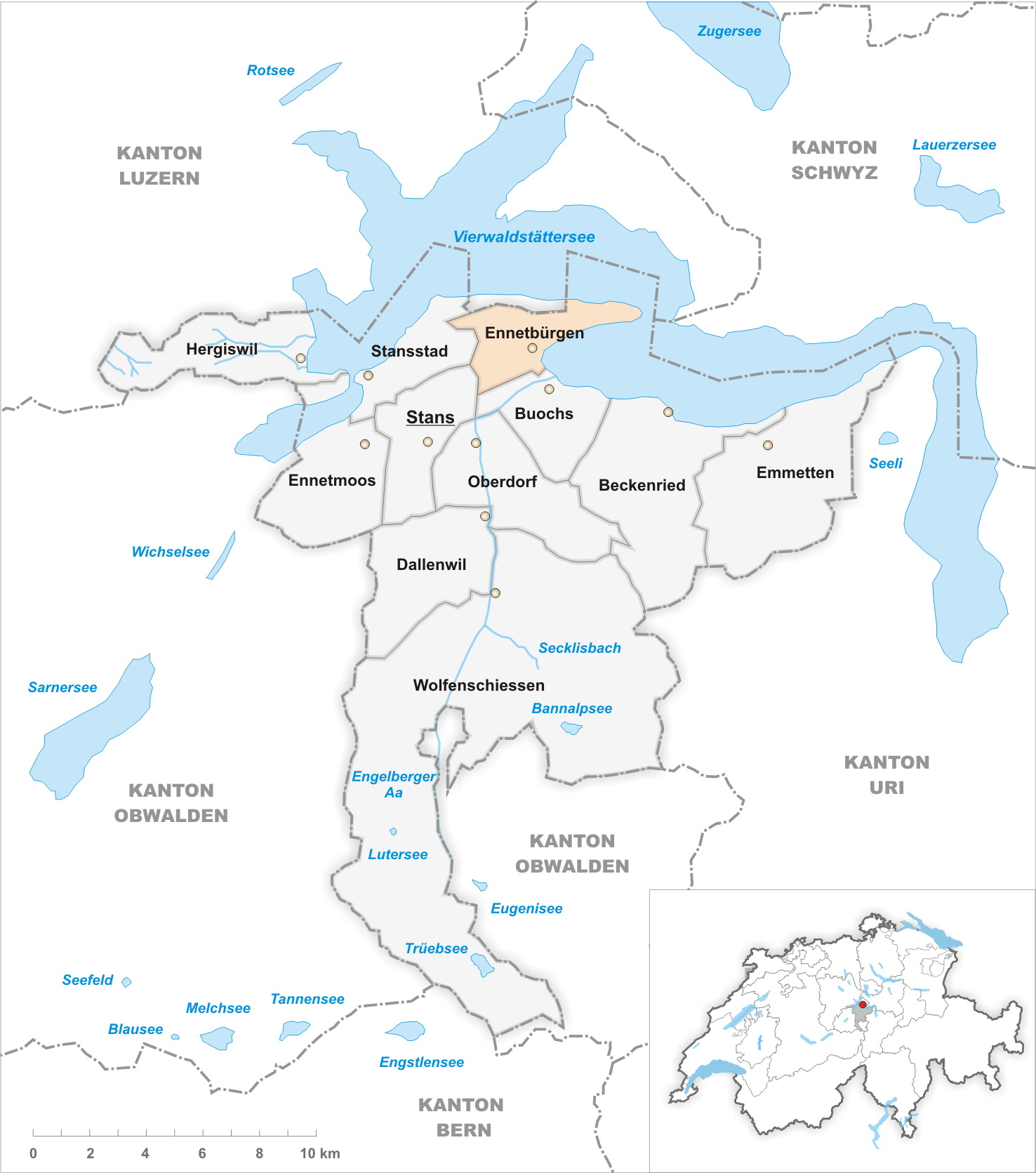 Municipality Ennetbürgen